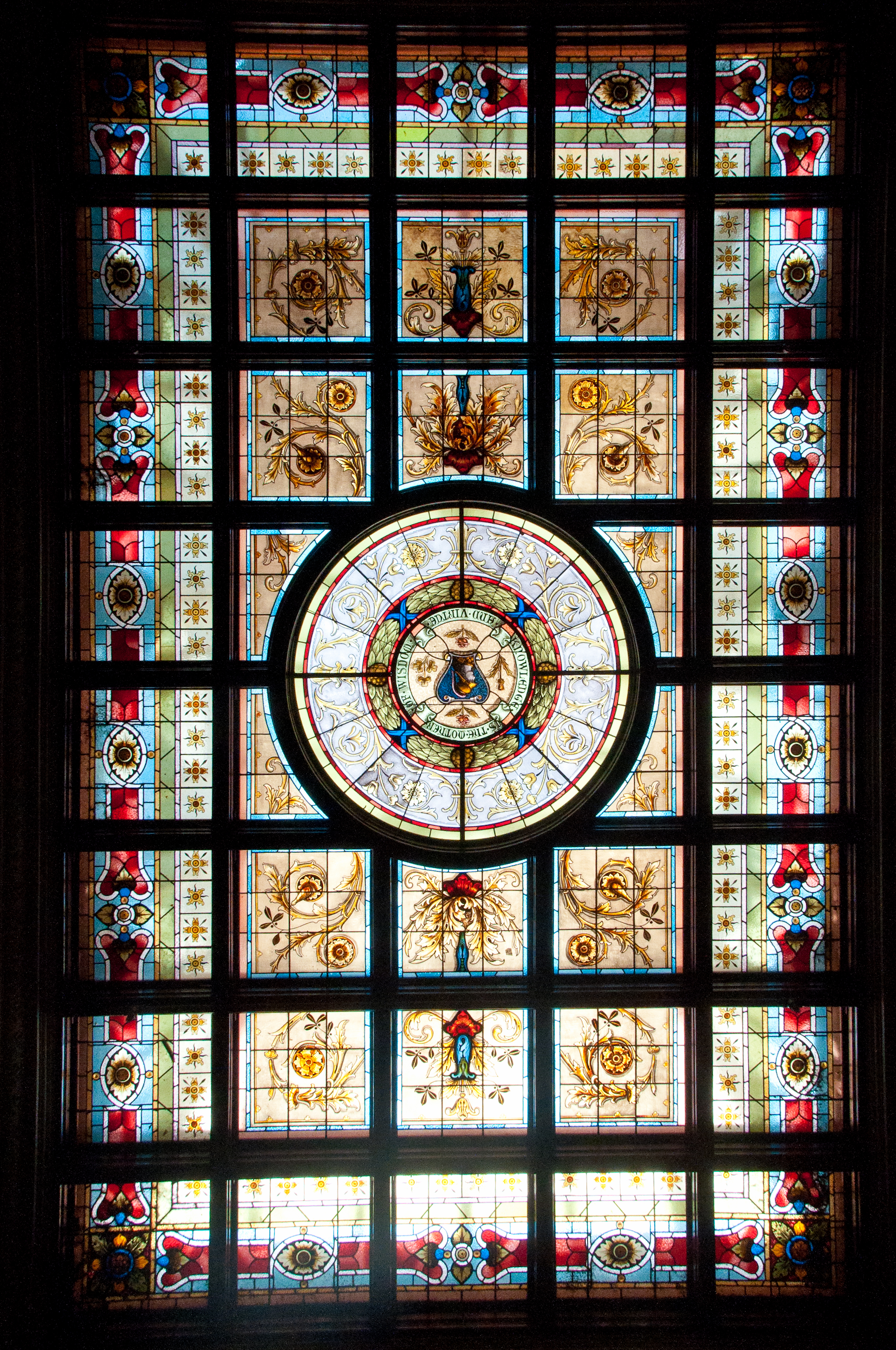 Sydney NSW Parliament Library Stained Glass